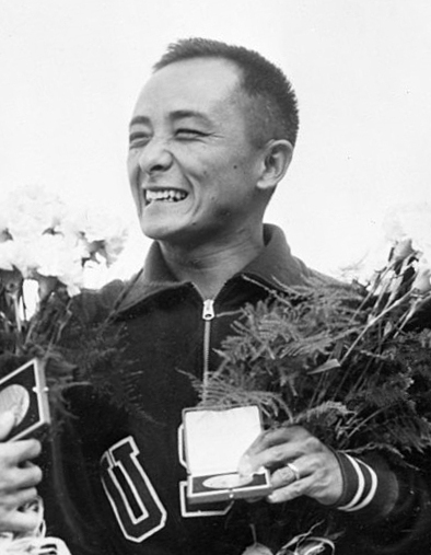 1952 Press Photo PJ Capilla, S Lee & G Haase win Olympic diving event